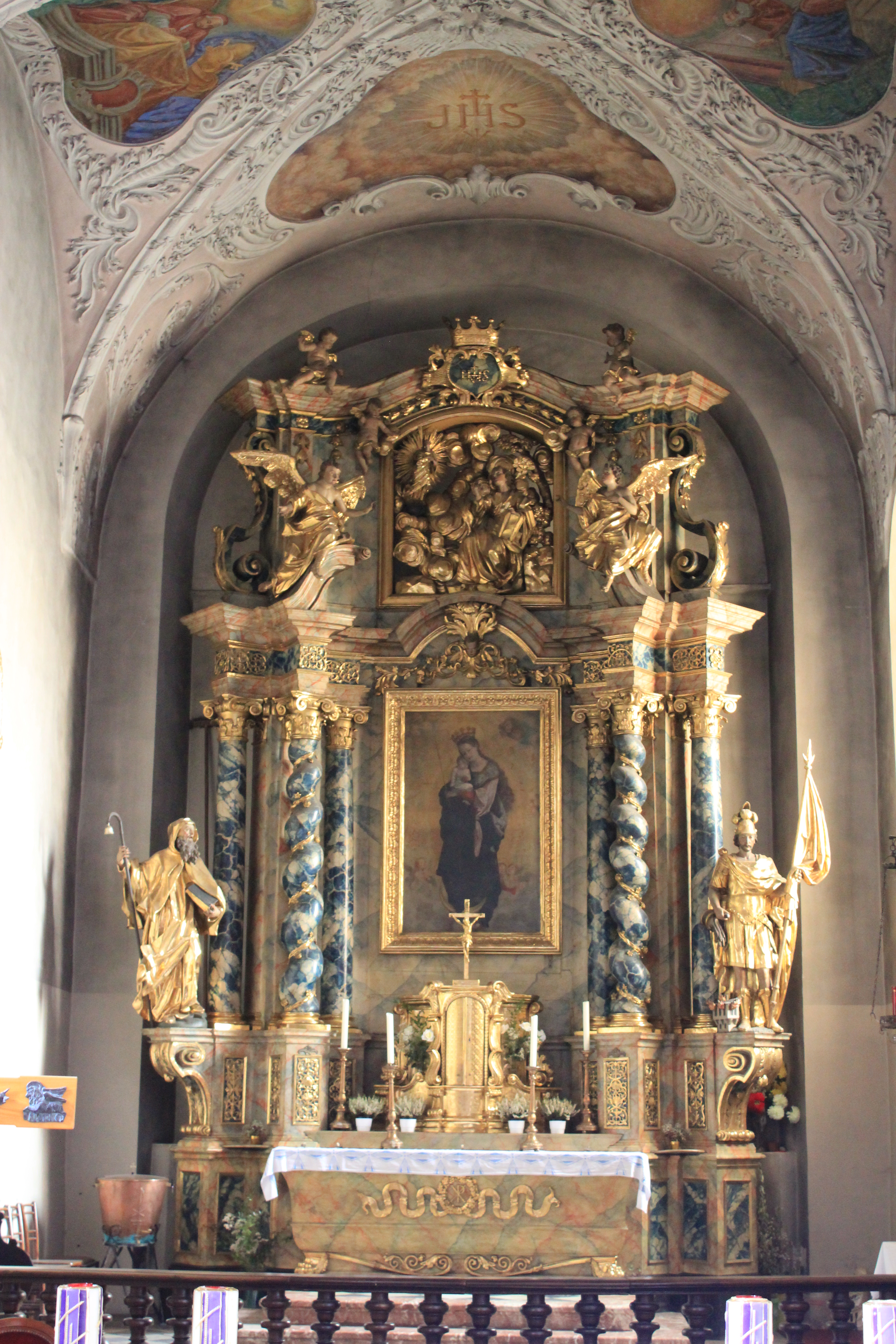 Marian church in Klagenfurt